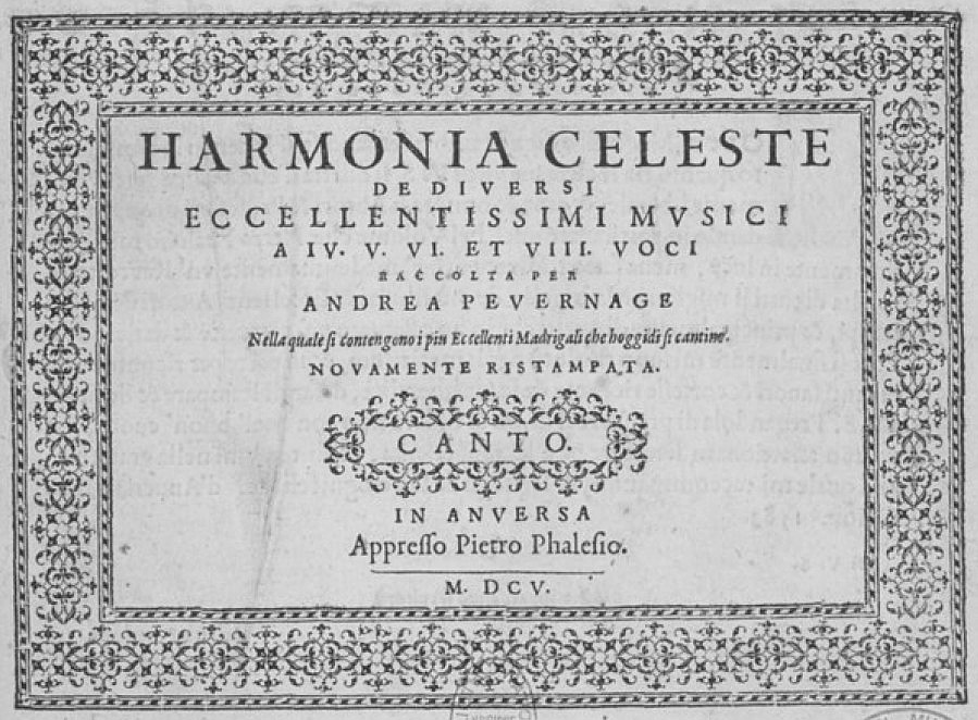 Title page of Pierre II Phalèse's Harmonia celeste (Anvers, 1605).